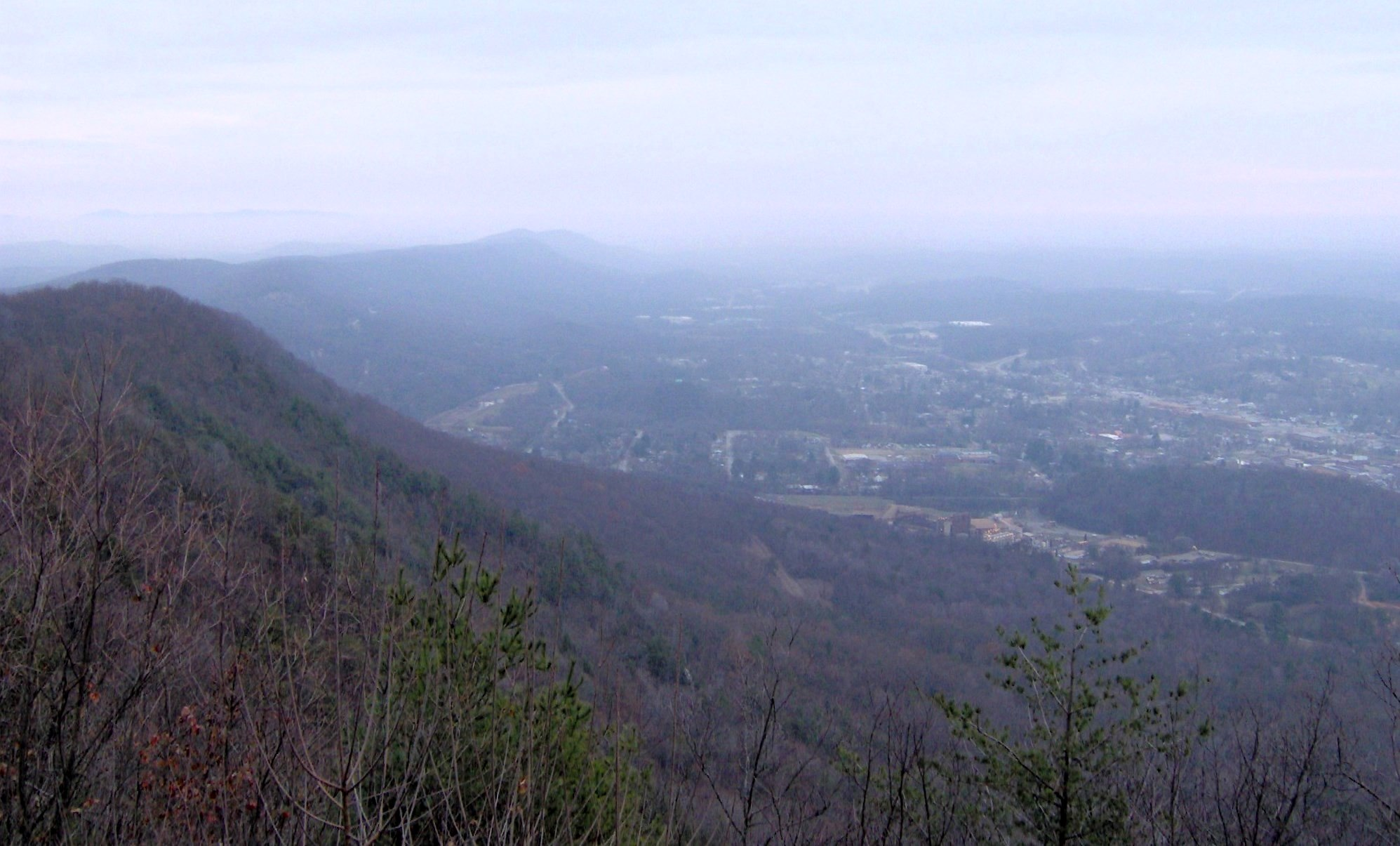 View of Walden Ridge from Mount Roosevelt, with Roane County, Tennessee, United States, on the right.